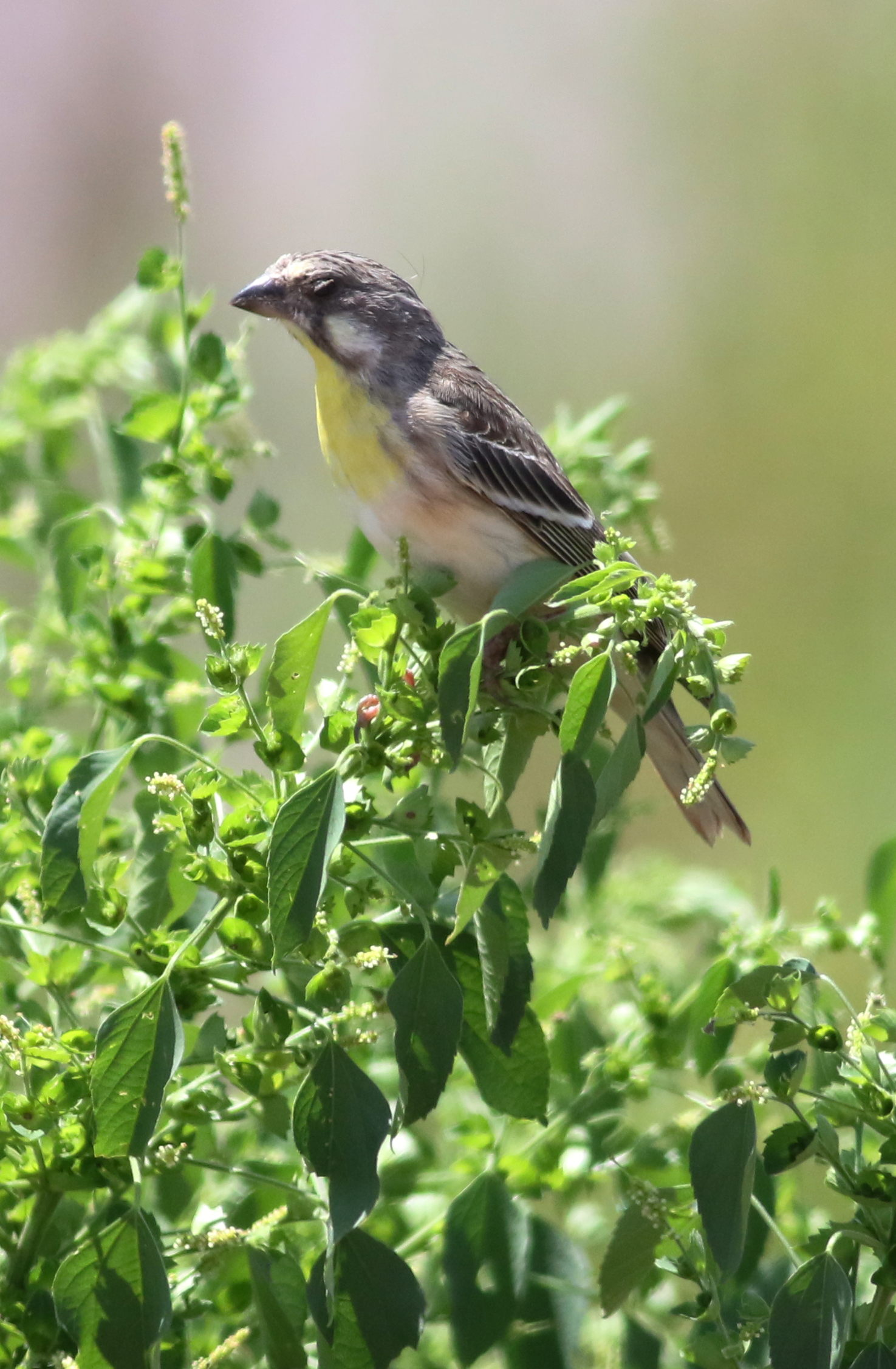 Lemon-breasted canary, Crithagra citrinipectus, near Pafuri in Kruger National Park, South Africa